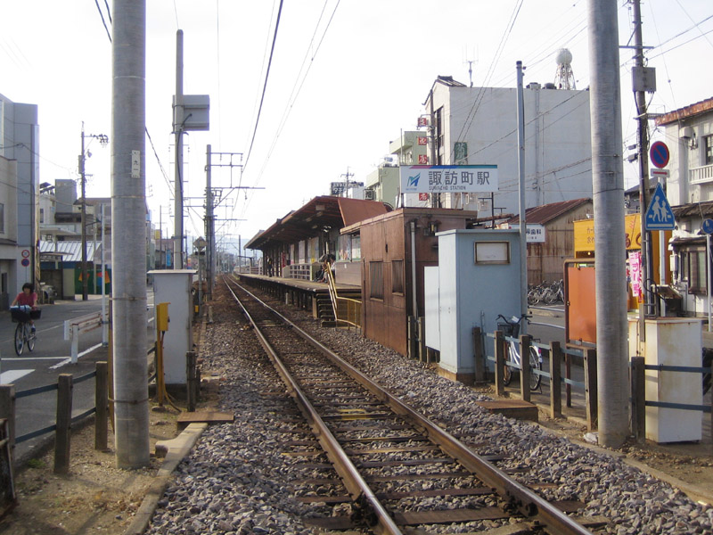 (諏訪町駅), located at -cho, Toyokawa, Aichi, Japan